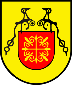 Coat of arms of Rankovce Municipality,Macedonia